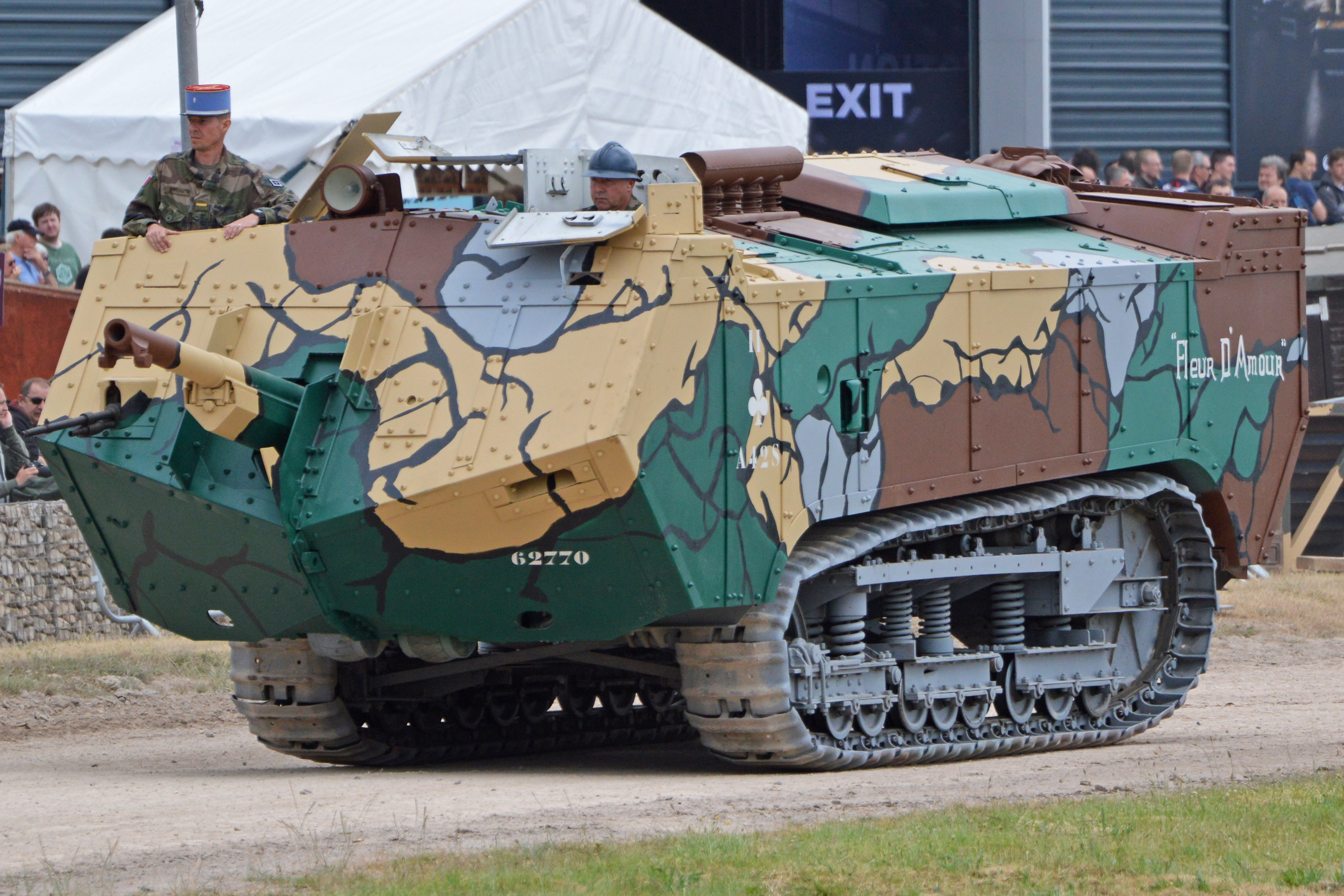 Genuine W1 French Heavy Tank The Saint Chamond was the second French tank to enter service, but despite a large production run of some 400 between April 1917 and July 1918 it was not entirely successful. Its main armament was a 75mm gun in the nose. The extended nose, added to the small size of the tracks, would lead to considerable problems with crossing trenches. The crew of eight also manned the four machine guns fitted around the machine. They served until the end of the war in a number of roles until replaced in French service by newer British designs. This is the sole surviving example. For many years it was part of the Aberdeen Proving Grounds Ordnance Museum in Maryland, United States, but it was gifted back to France in 1987 and is now preserved by the Musée des Blindés at Saumur. It was recently restored to running condition and is seen taking part in ‘TankFest 2017’ to celebrate 100 years since the type originally entered service. ‘The Tank Museum’, Bovington Camp, Dorset, UK. 24th June 2017